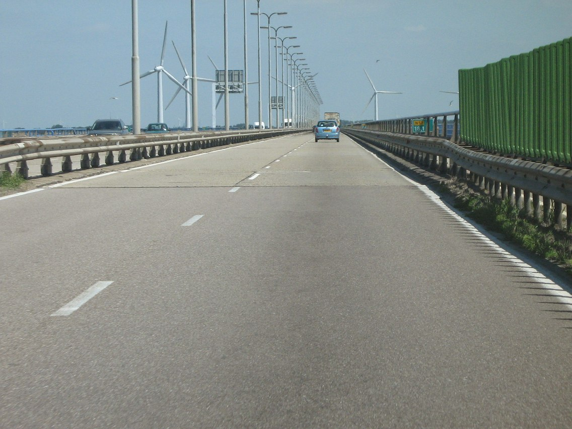 Riding over the Haringvlietdam, in north direction.